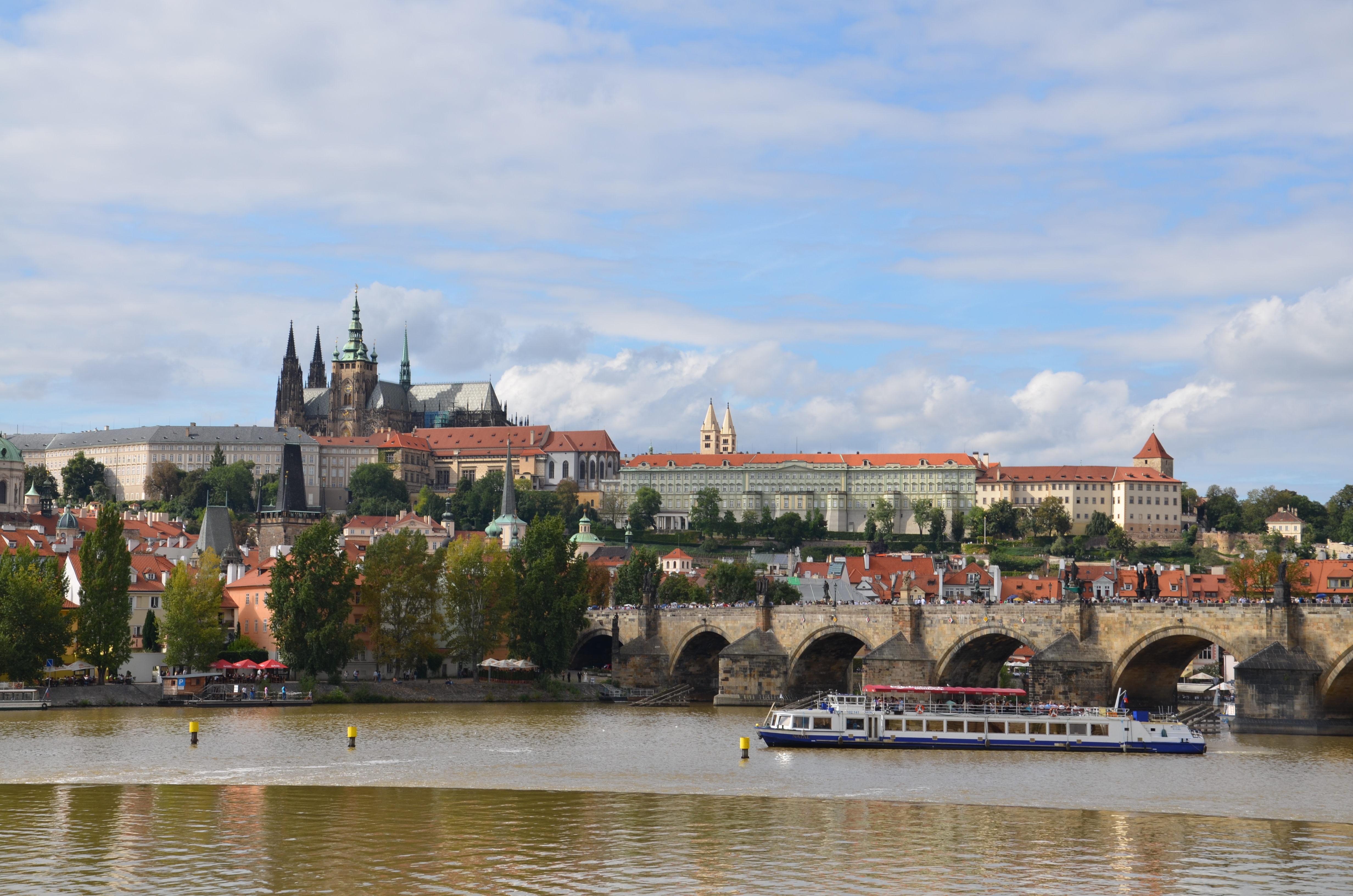 Riverboat Natal passing the Charles bridge in Prague